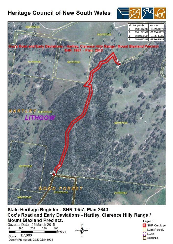 Cox's Road and Early Deviations - Hartley, Clarence Hilly Range and Mount Blaxland Precinct: SHR 1957. Heritage Council Plan 2643. Cox's Road and Early Deviations: Hartley, Clarence Hilly Range/Mount Blaxland Precinct - satellite view